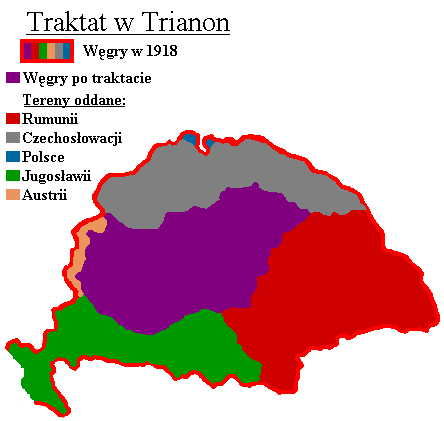 Treaty of Trianon